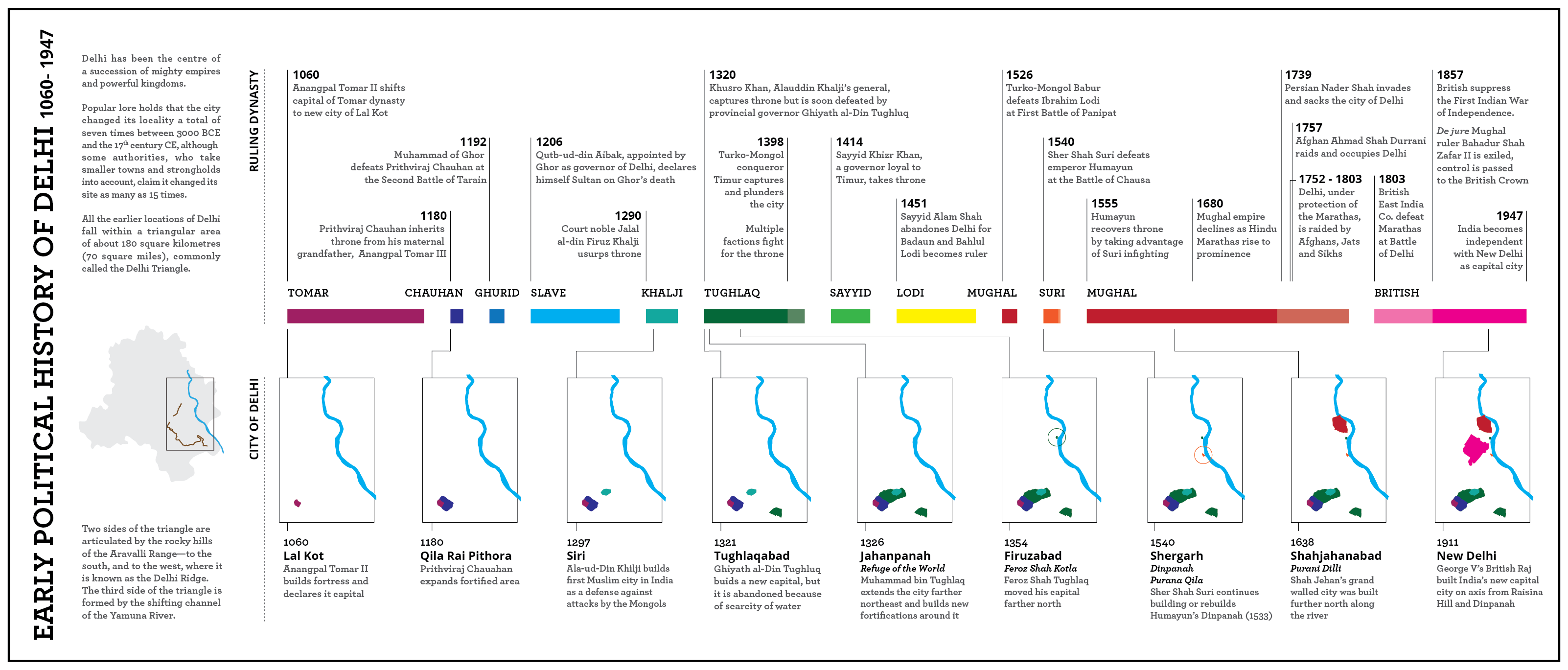 A brief timeline noting changes in the political rulers of the city of Delhi, India; illustrated with the locations of prominent settlements in the region. Other information Content is sourced from various references, including articles on the History of Delhi from various sources: Wikipedia, Encyclopedia Britannica, as well as Lucy Peck's "Delhi - A Thousand Years of Building"